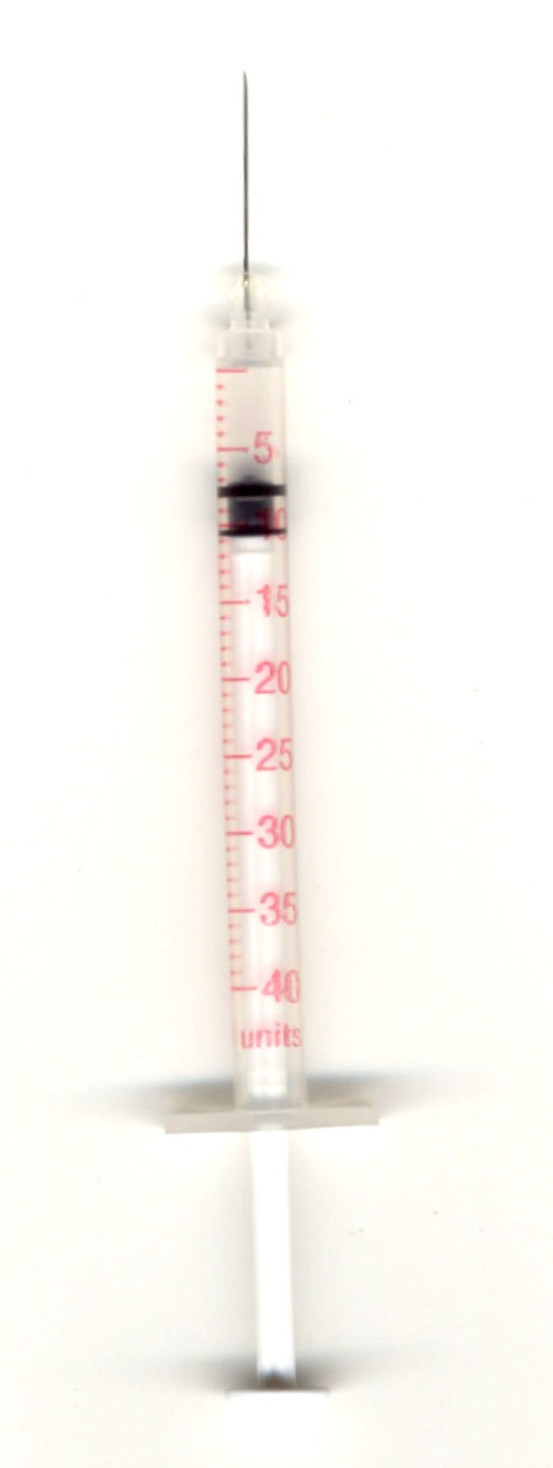 Old insuline syringe